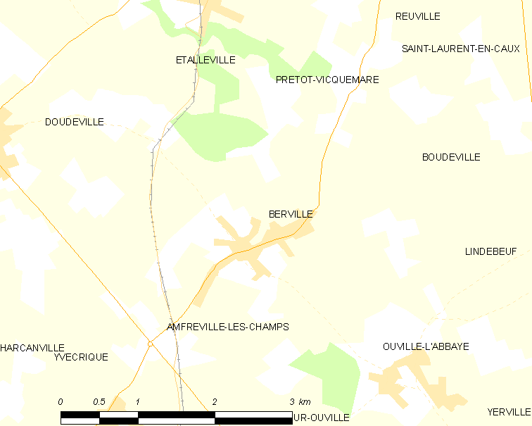 Map of French municipality Berville